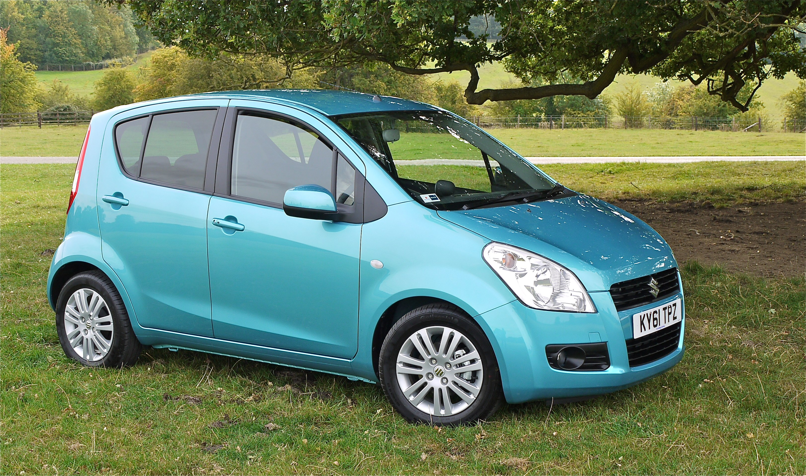 Splash name is .... (complete as required !). Panasonic G1 14-45 Lens